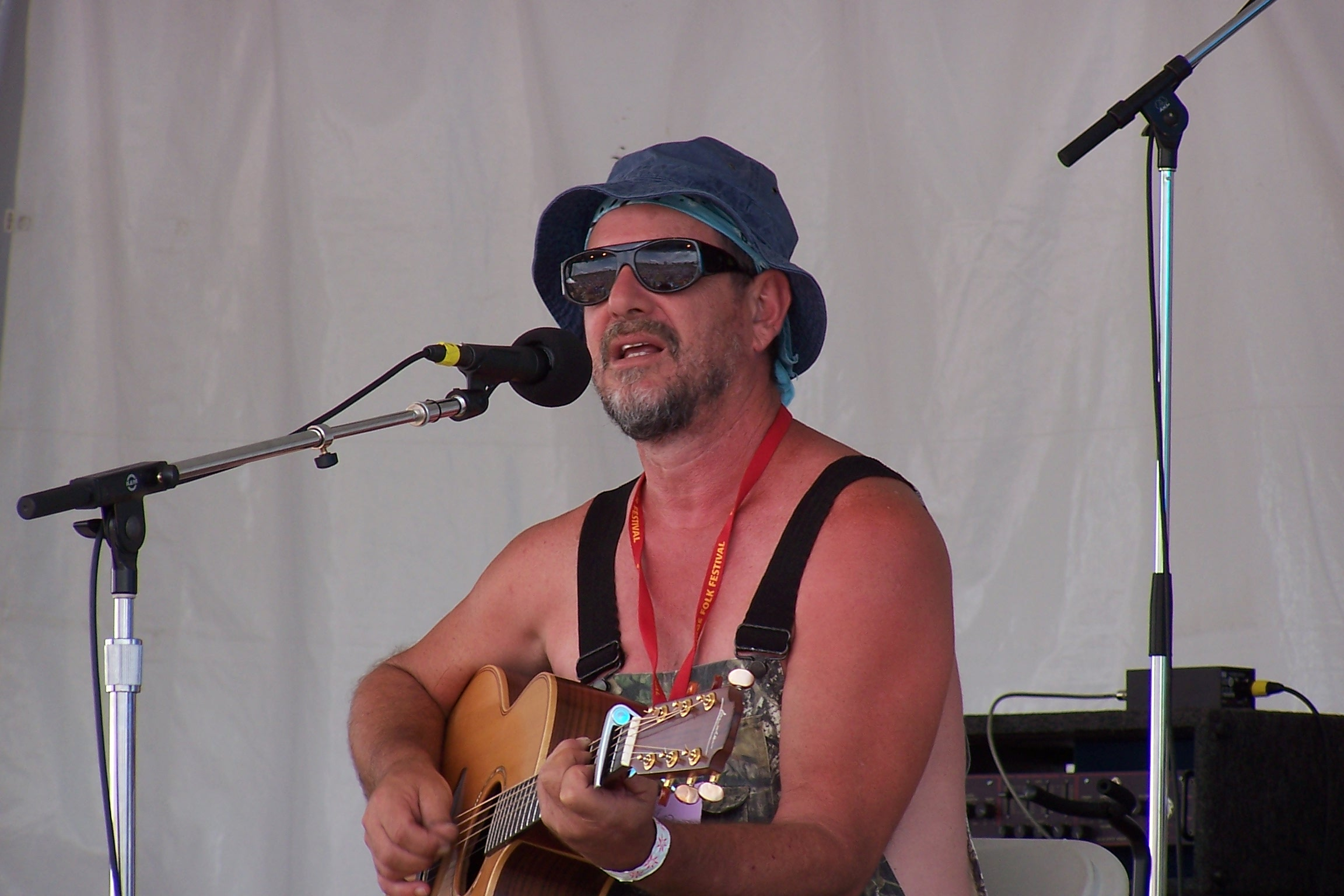 Greg Brown at the Falcon Ridge Folk Festival 2004 photo by Skip Billian